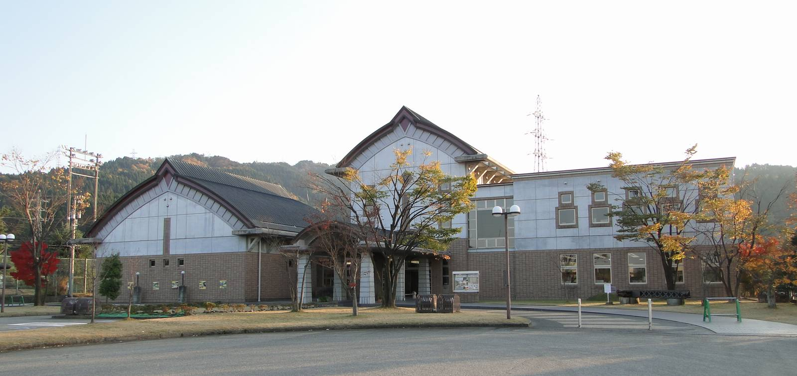 Museum Unazuki Yugakukan at Michinoeki Unazuki in Kurobe City, Toyama Prefecture, Japan